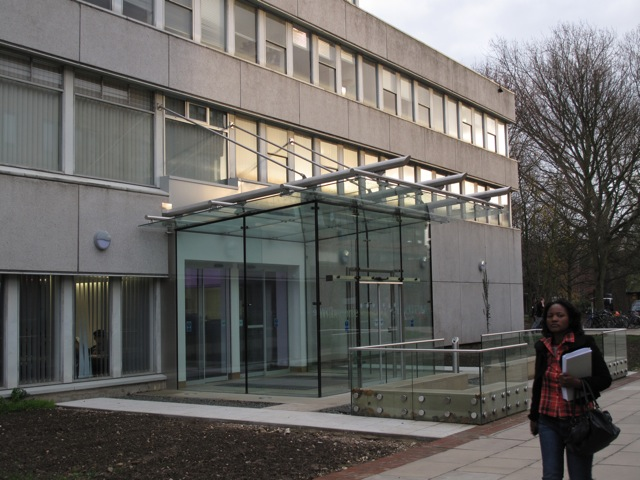 New Entrance to the Wilberforce Building This glass porch was recently completed for the Wilberforce Building in the University of Hull.